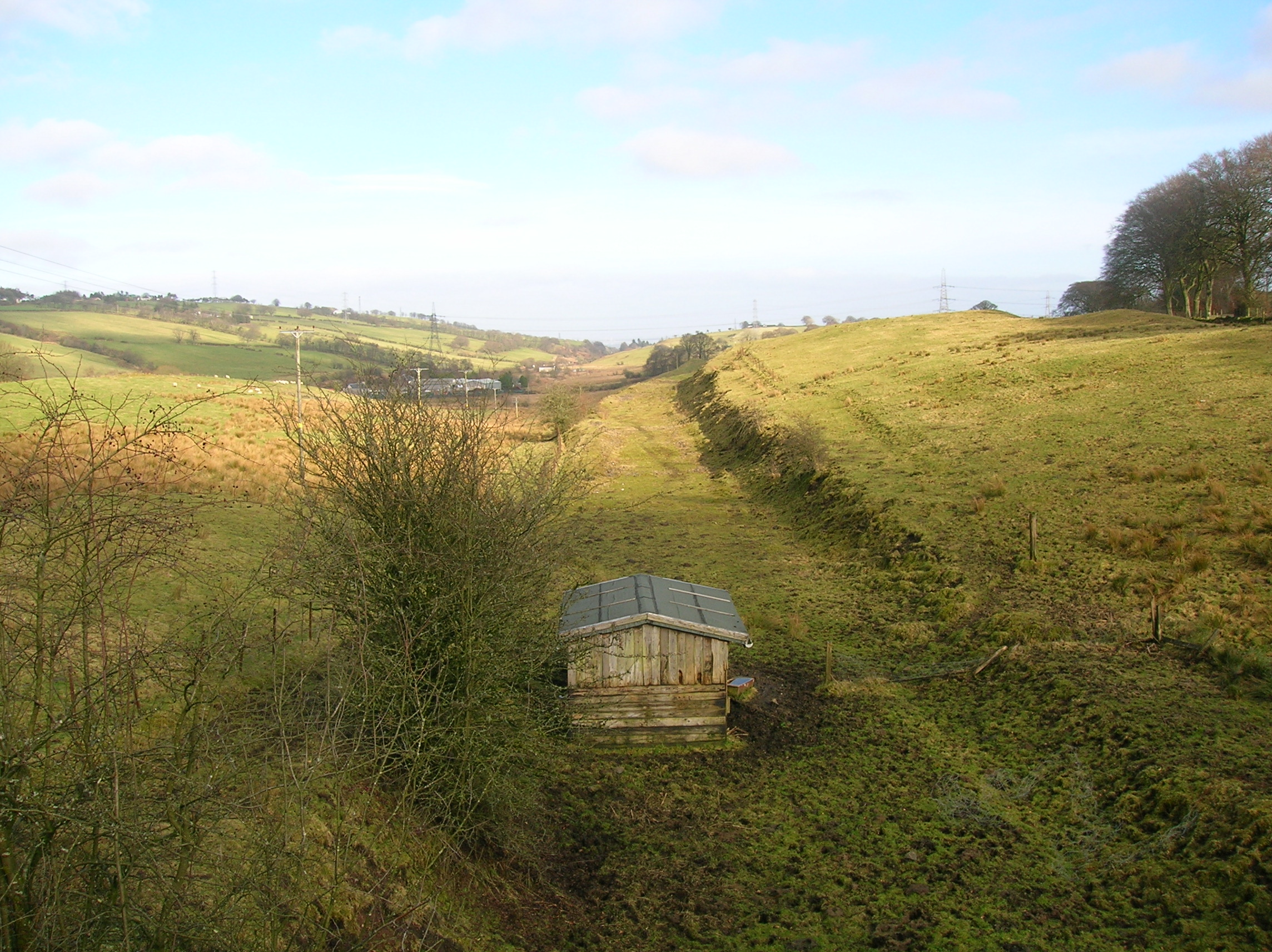 Uplawmoor looking towards Neilston from the old overbridge. East Renfrewshire, Scotland.